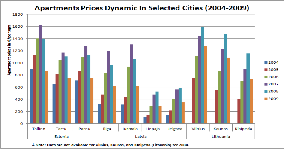 It shows a rough estimation of average apartments’ prices in selected cities within the Baltic states in term of Euro per square meter. All data represented is extracted from respective statistics department: Statistics Estonia, Central Statistical Bureau of Latvia, and Statistical Lithuania.